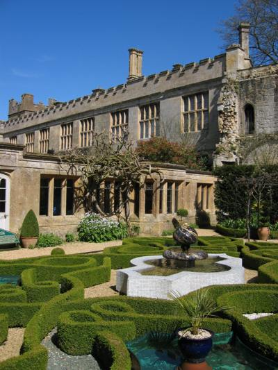 Knot topiary garden at Sudeley Castle. Located near Winchcombe, Gloucestershire, western England.